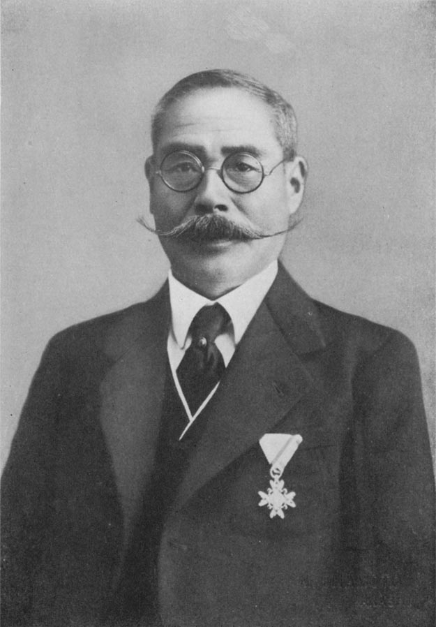 Mr. Heiji Oikawa.